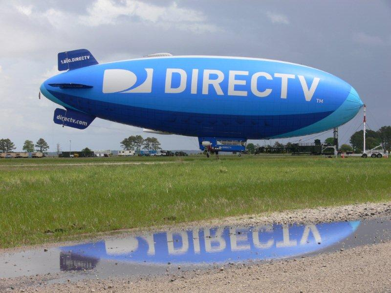 DIRECTV Blimp fresh out of the hangar. Elizabeth City, NC